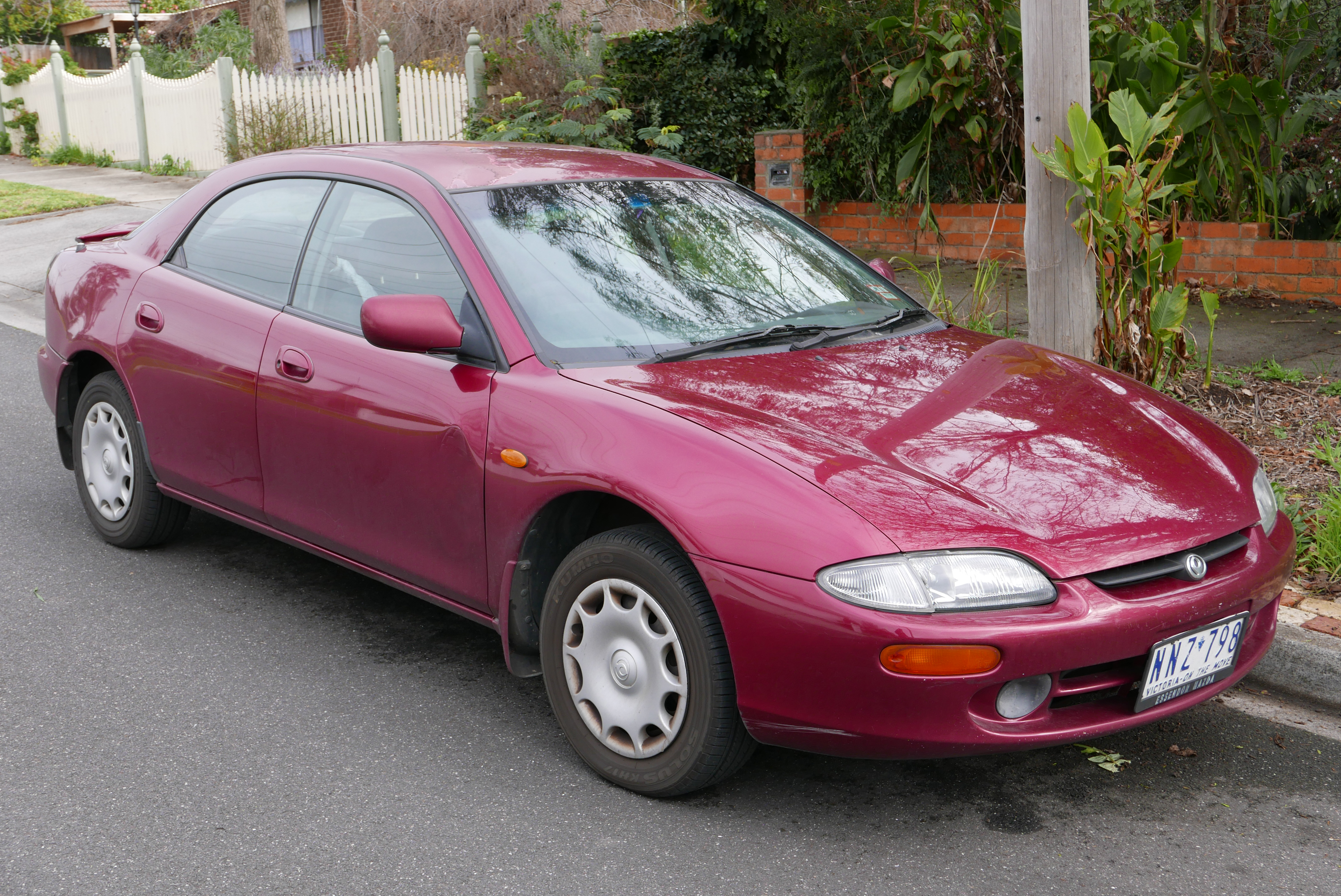 1995 Mazda 323 (BA) Astina sedan. Photographed in Box Hill North, Victoria, Australia. Vehicle registration enquiry results Jurisdiction Victoria Registration NNZ798 Chassis code JM0BA11P100119567 Engine code BP962489 Compliance date 1995-08 Year of manufacture 1996 (not a typo)